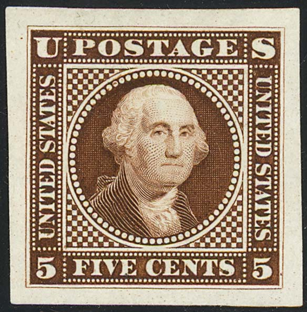 Washington 5-cent stamp essay, 1869